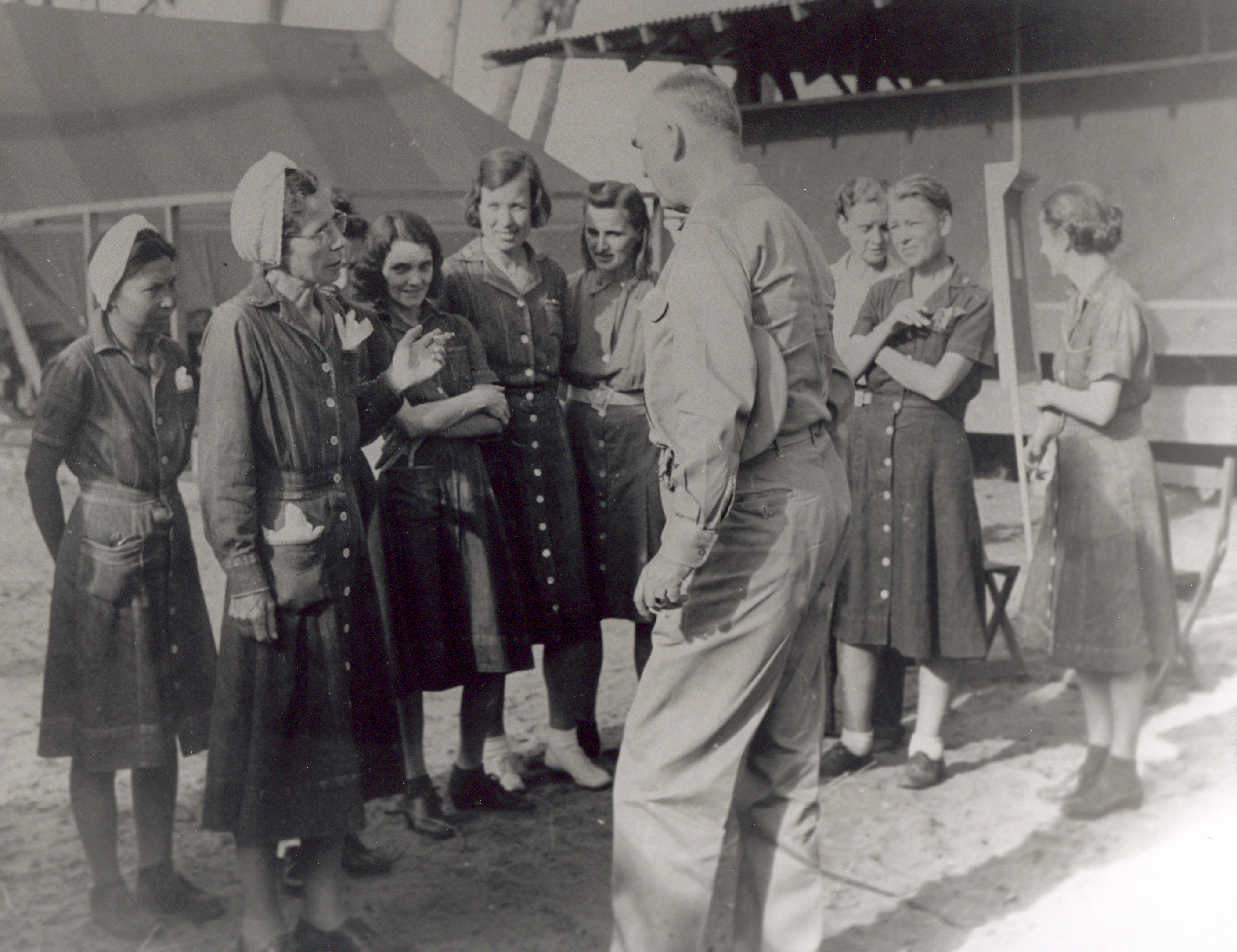 Navy nurses rescued from Los Banos, March 1945. Chief Nurse Laura Cobb is speaking with Admiral Thomas Kinkaid